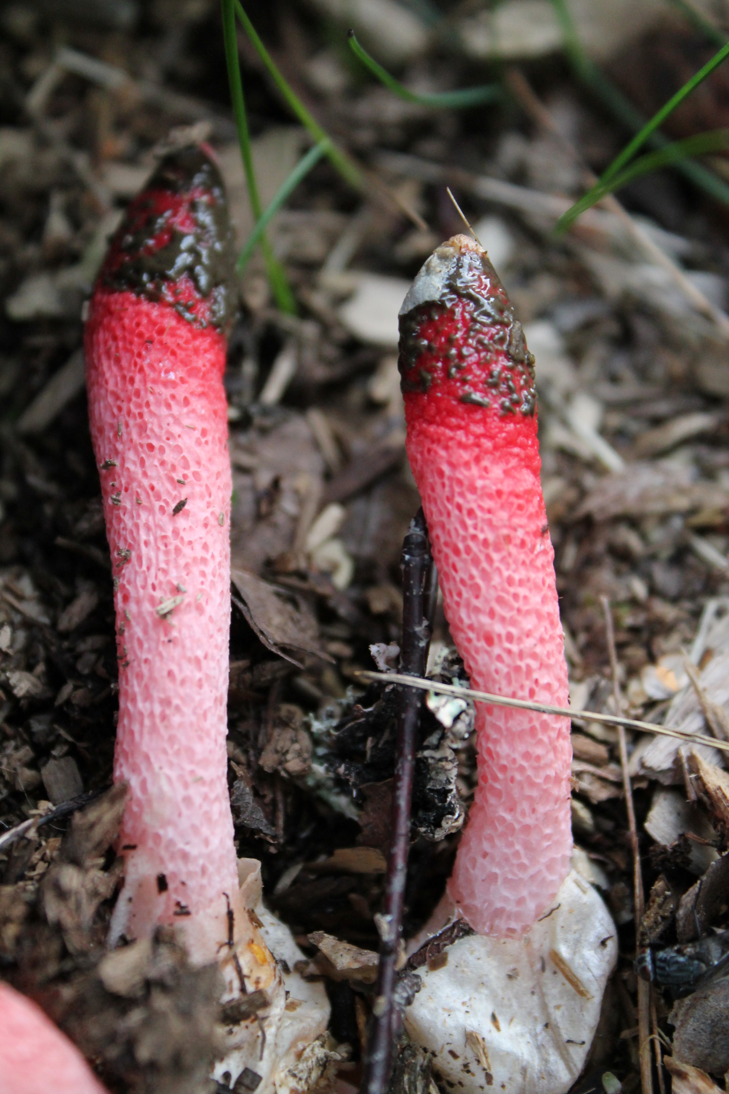 Mutinus ravenelii in Finland.